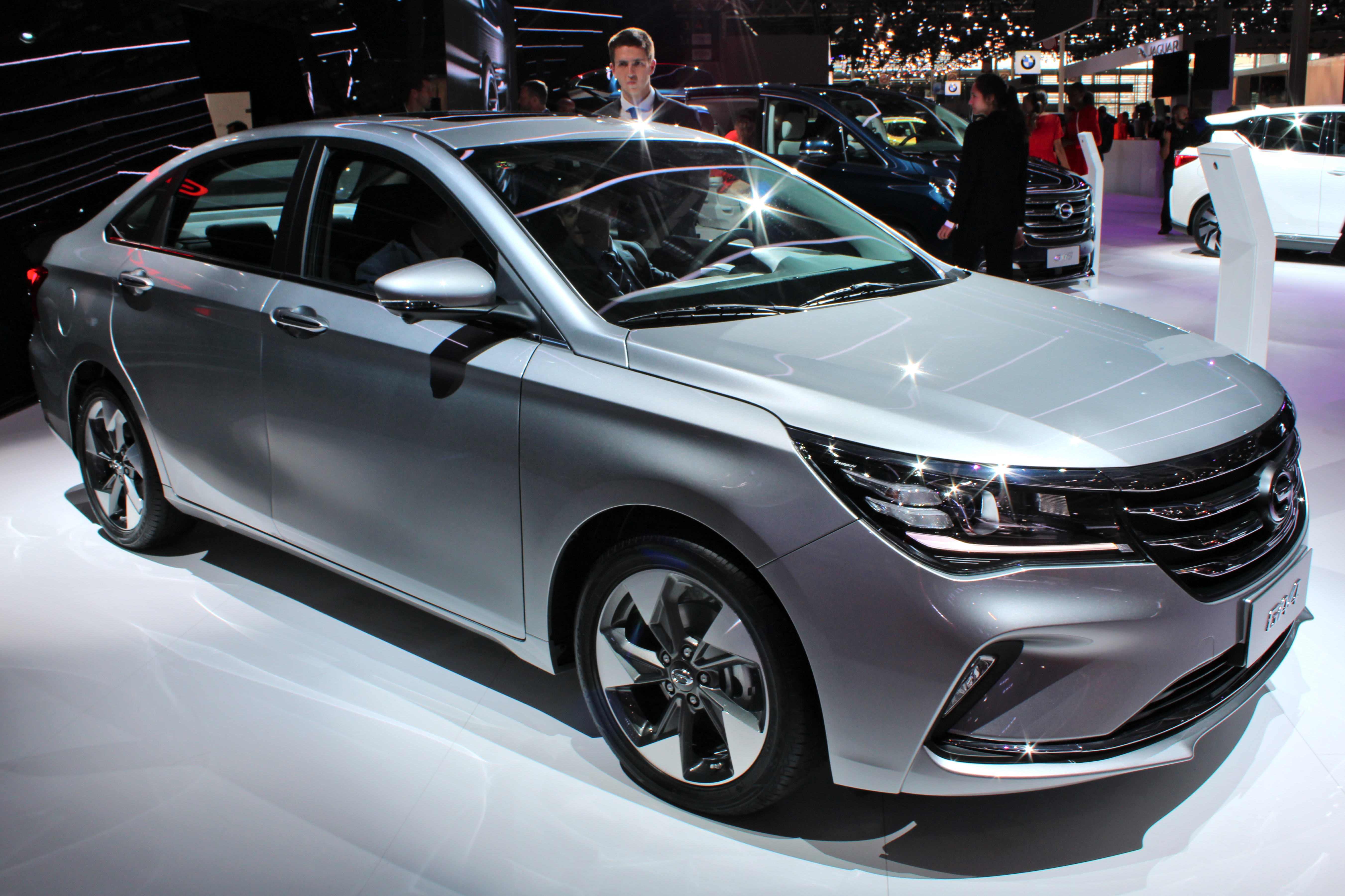 GAC Motor GA4 at Paris Motor Show 2018